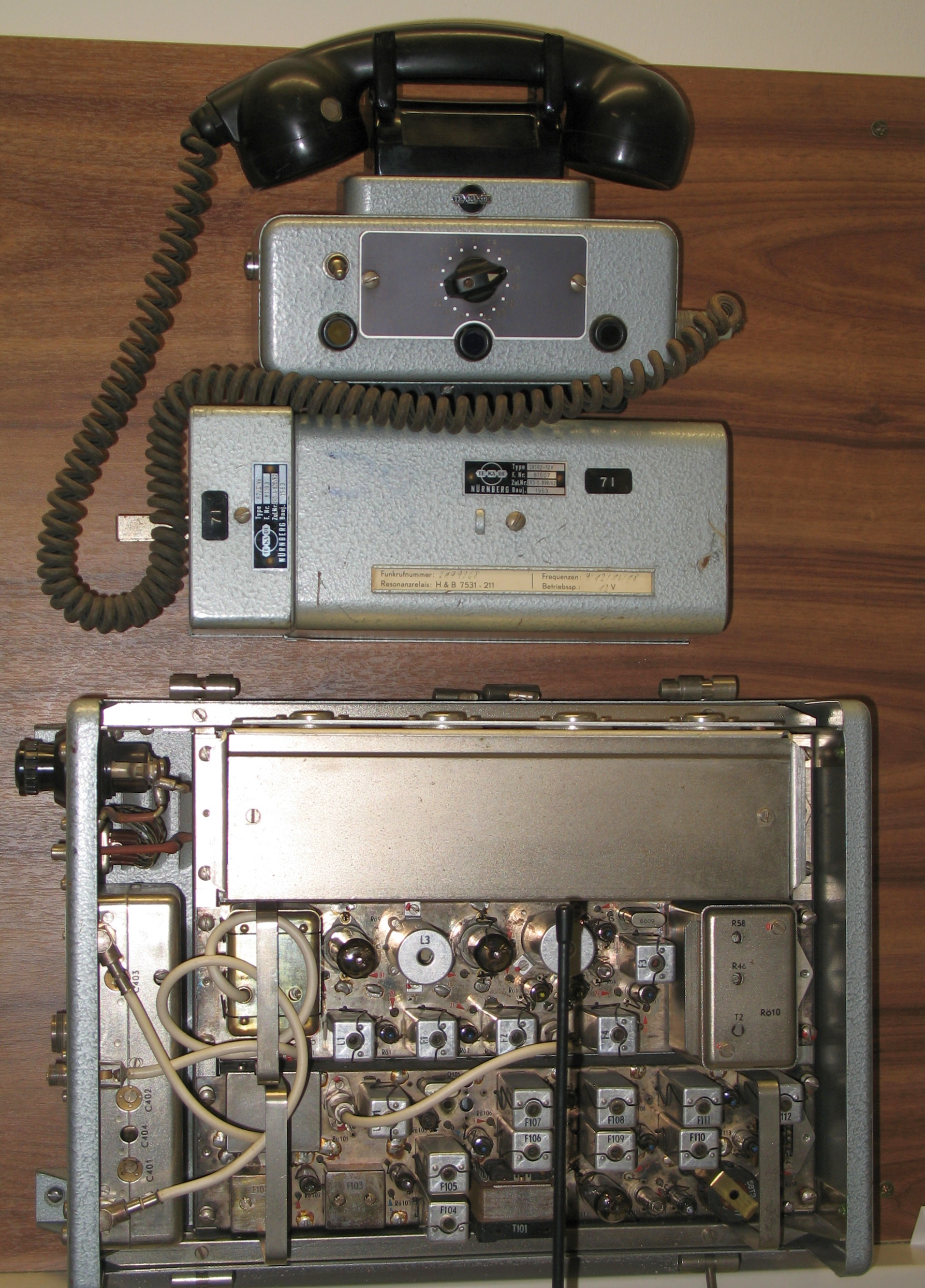 Mobile phone for the so-called A-network, the first cellular network in Germany; produced in 1963 by former TeKaDe GmbH, Nürnberg